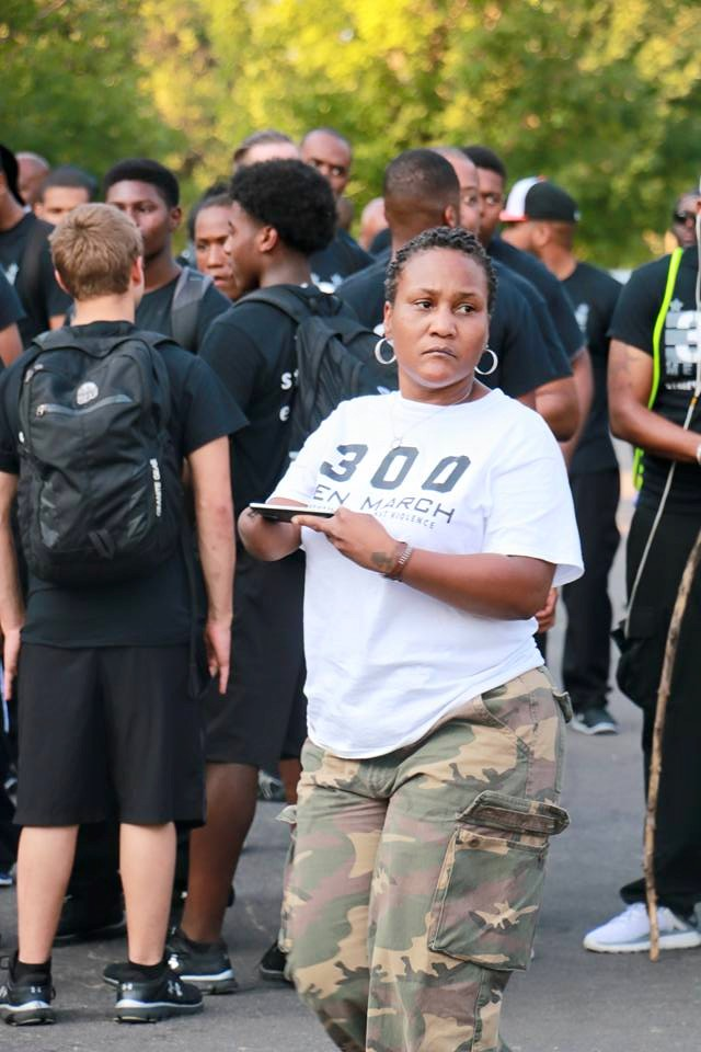 Social Reformer, Former 300 Men March leadership team